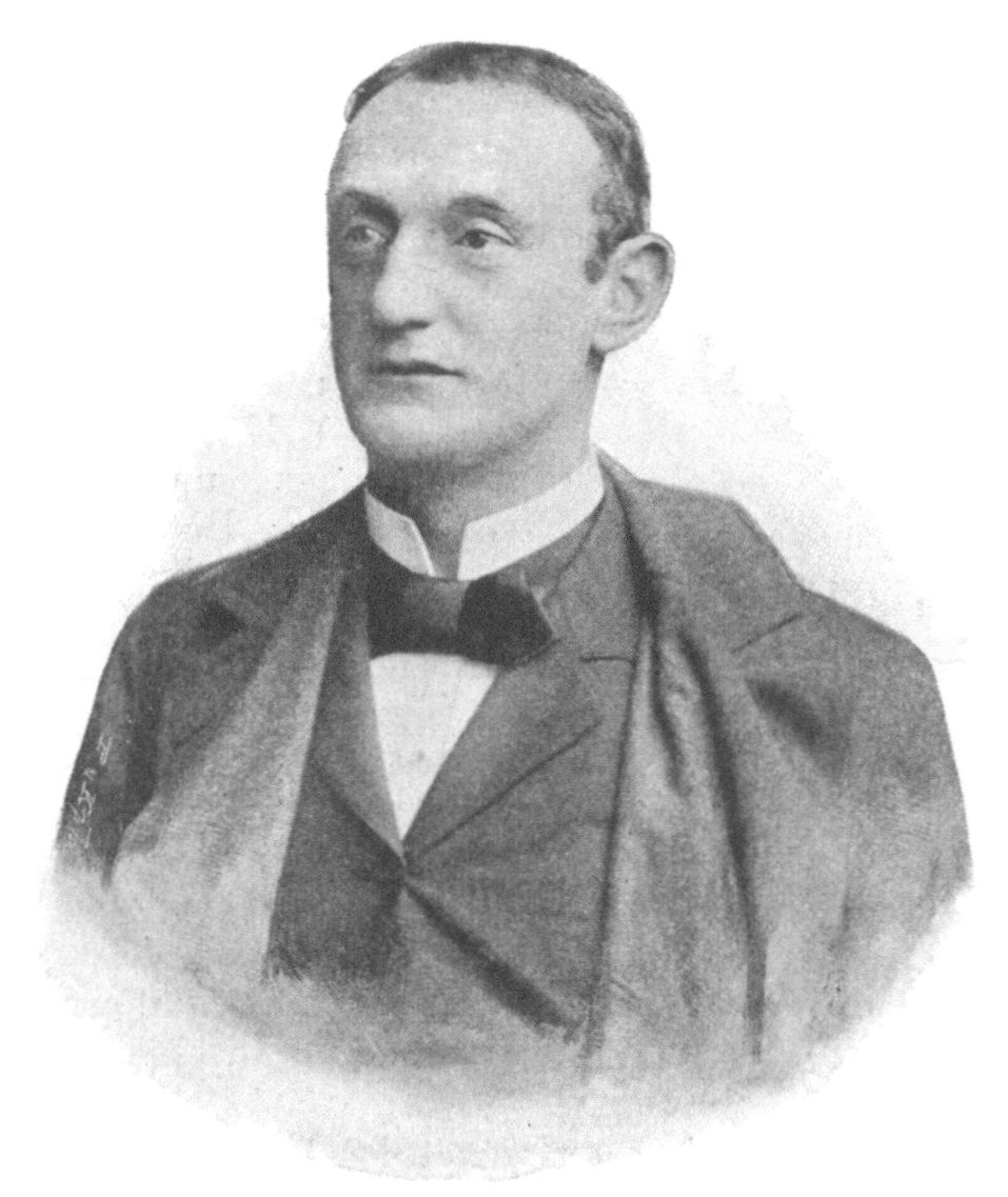 Adolf Weisse (1857-1933), Austrian actor